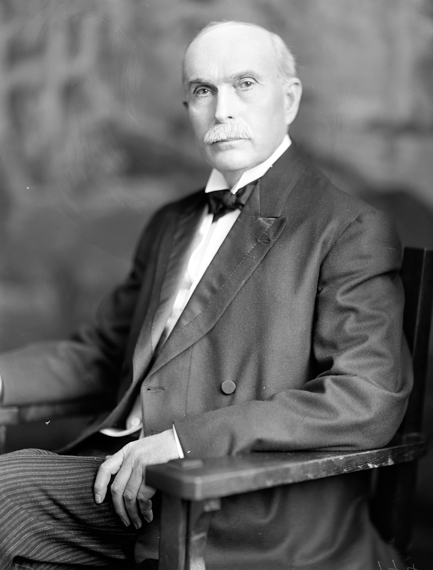 Samuel W. Gould, US Representative from Maine